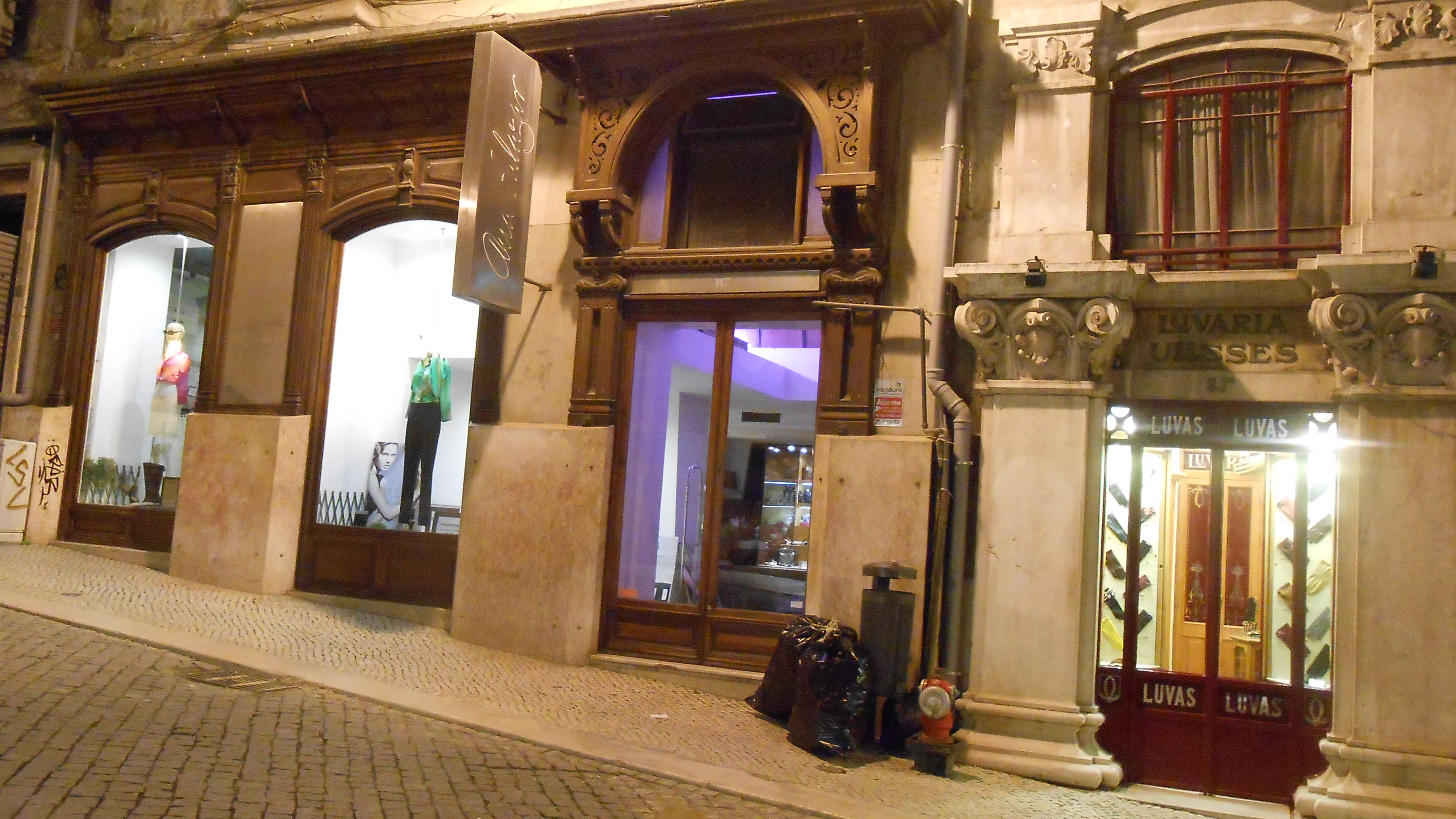 The Ana Salazar shop in the Rua do Carmo in the Chiado quarter, Lisbon. At the right the traditional Luvaria Ulisses, a gloves shop.